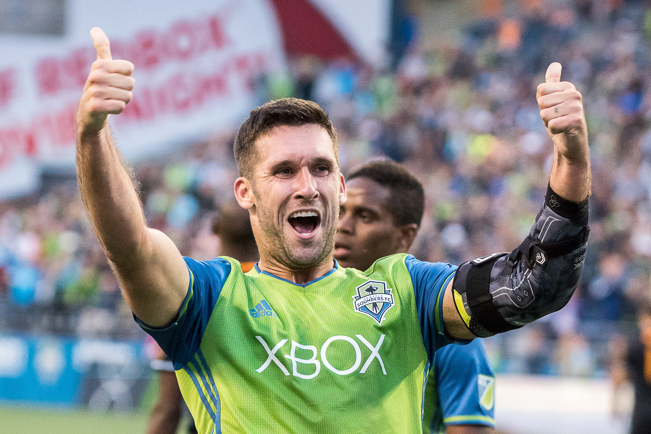 Will Bruin celebrating after scoring a goal against the Houston Dynamo on June 4, 2016. Photo by Max Aquino